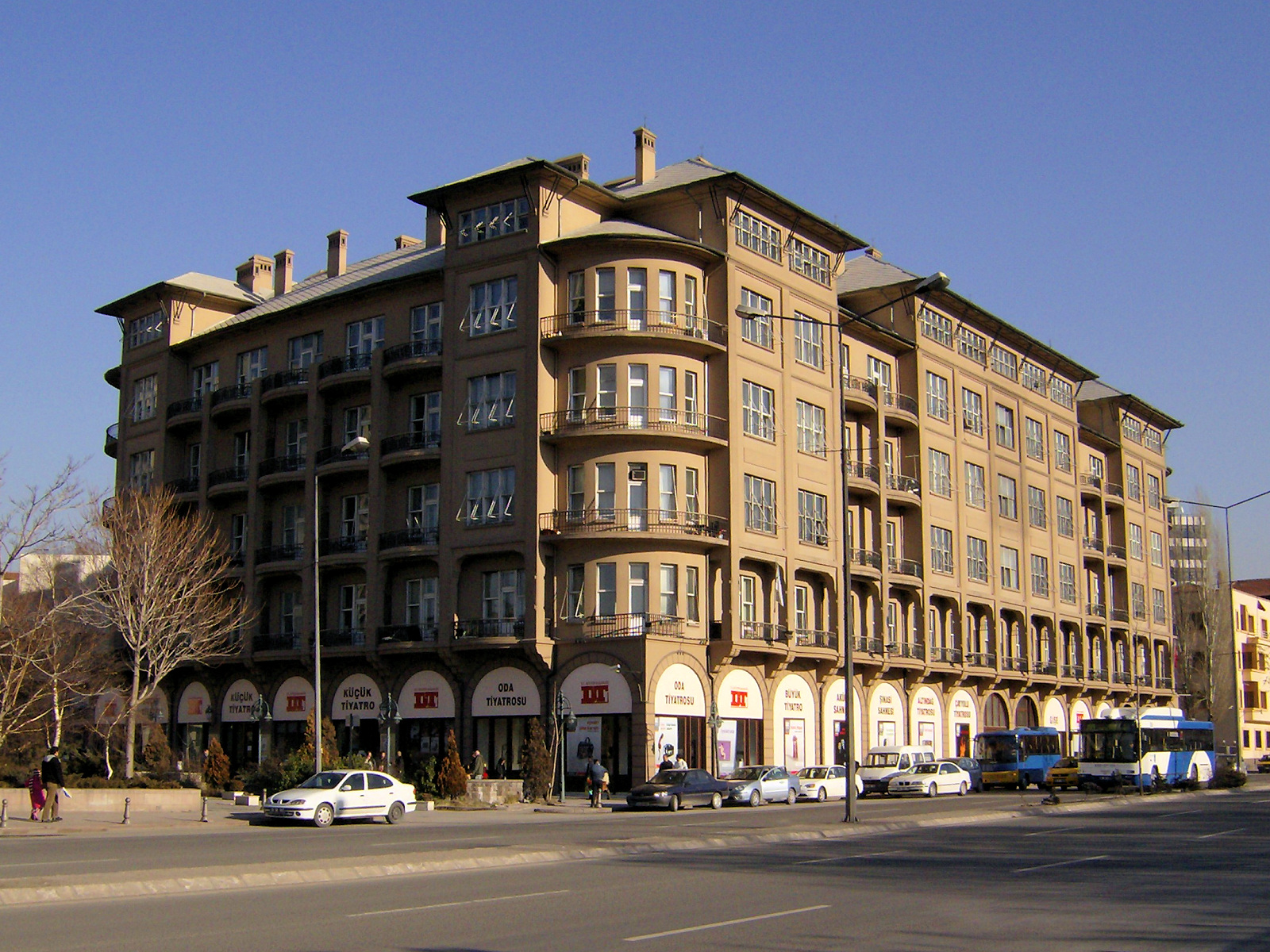 Building hosting the head office of Turkish State Theatres and the two stages of Küçük Tiyatro and Oda Tiyatrosu, in Ankara, Turkey